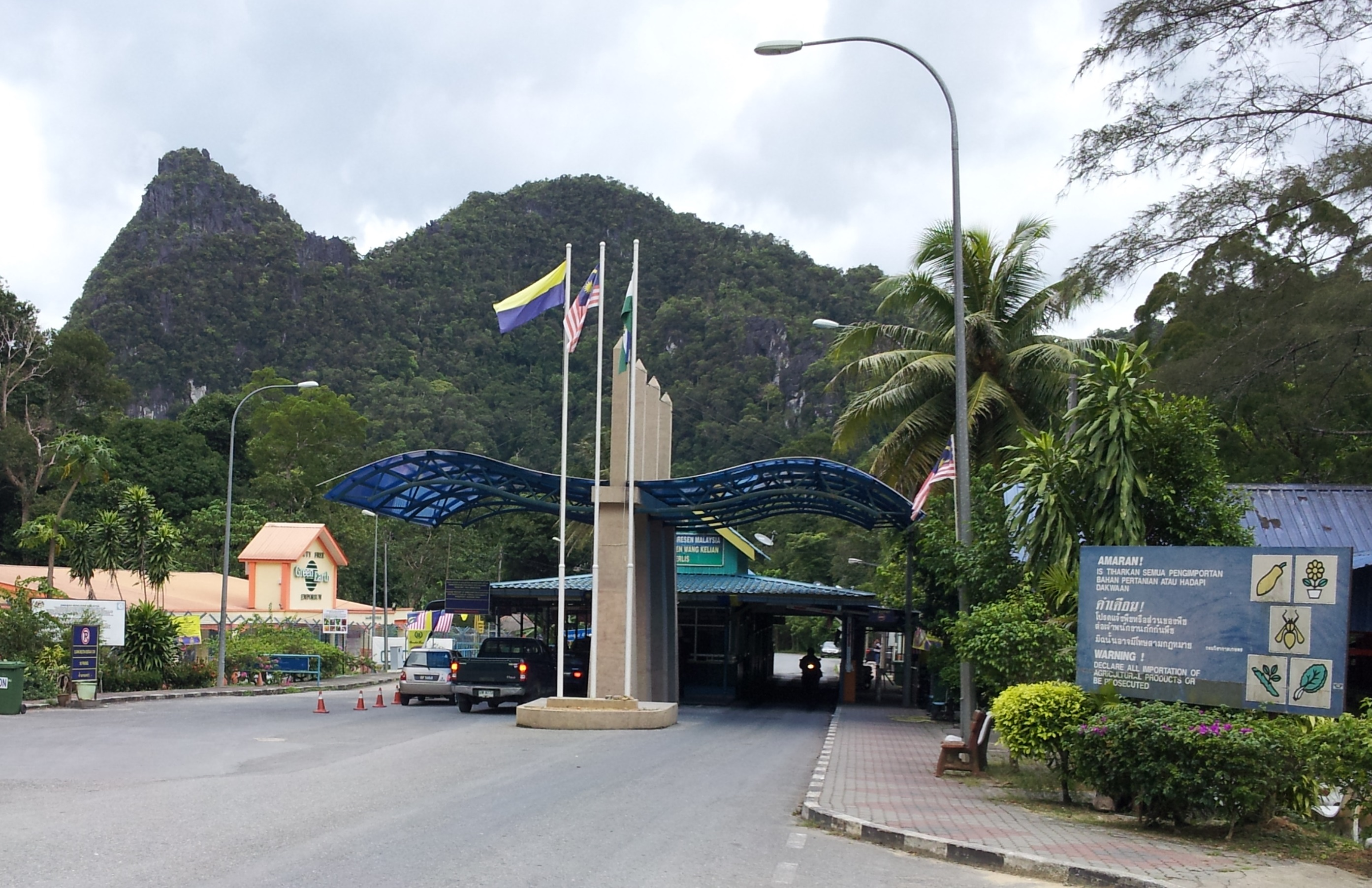 Malaysian CIQ checkpoint at Wang Kelian, Perlis. Seen as you are entering Malaysia from Wang Prachan, Thailand.